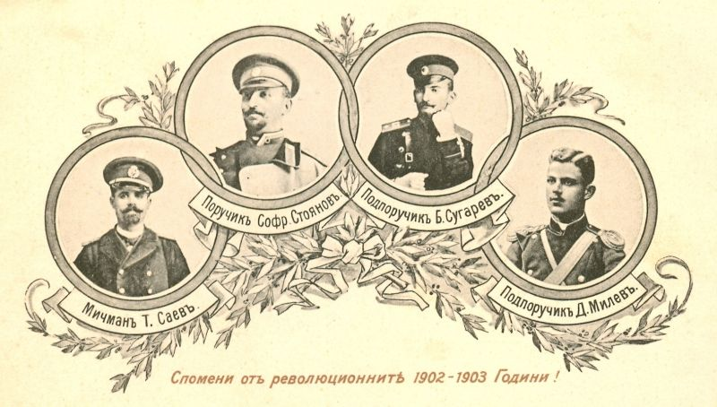 Postcard with SMAC members Saev, Stoyanov, Sugarev, Milev